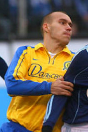 Alexei Arkhipov in action for FC Luch-Energiya